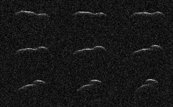 Delay-Doppler images of (85990) 1999 JV6 obtained on January 12, 2016. Resolution is 18.75 m x 0.16 Hz. Range increases down and Doppler frequency increases to the right. Goldstone was used to transmit and Green Bank was used to receive.